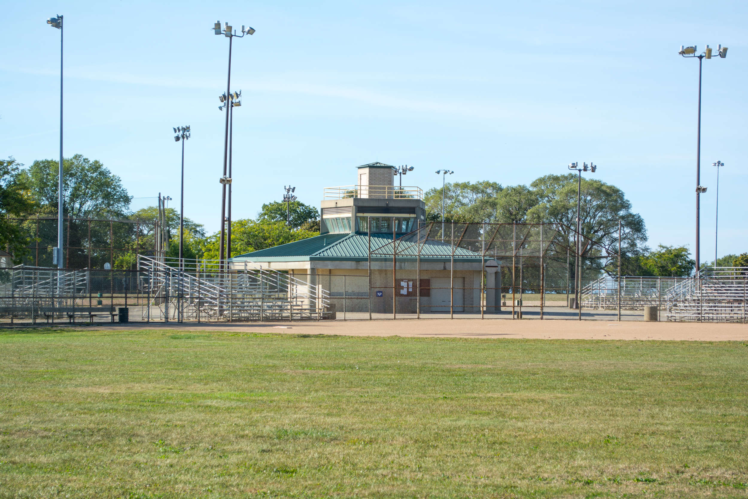 Amenities building and baseball field at Gordon Park, located about 900 E. 72nd Street in Cleveland, Ohio, in the United States. The park was established in 1893. The park was developed by Cleveland industrialist William J. Gordon, and it was originally part of his estate. About 76 acres of the park were turned over to the state of Ohio, and form part of the Cleveland Lakefront State Park. In April 2013, the city of Cleveland leased Gordon Park to the Cleveland Metroparks system for 99 years. As of 2017, the 46 acre park features playground equipment, 12 tennis courts, five lit and one unlit baseball fields, and large athletic fields.